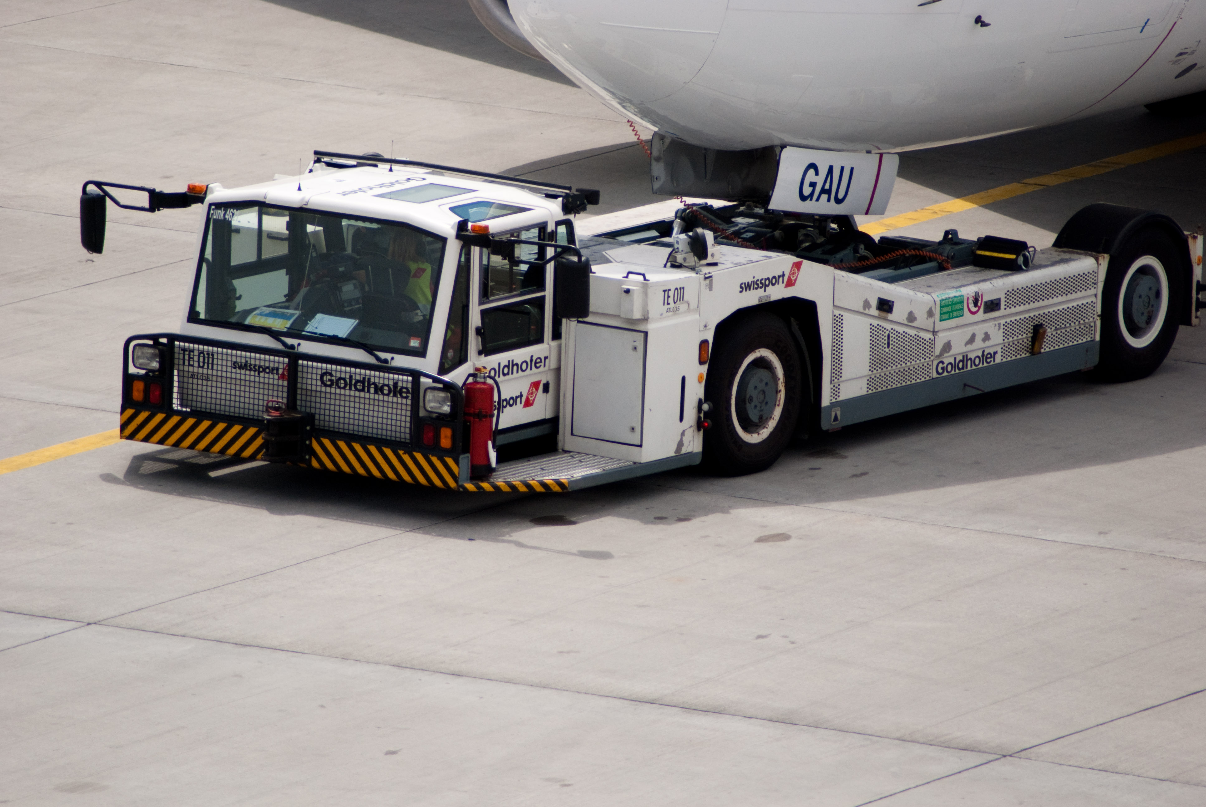 Goldhofer Tug at Zurich Airport